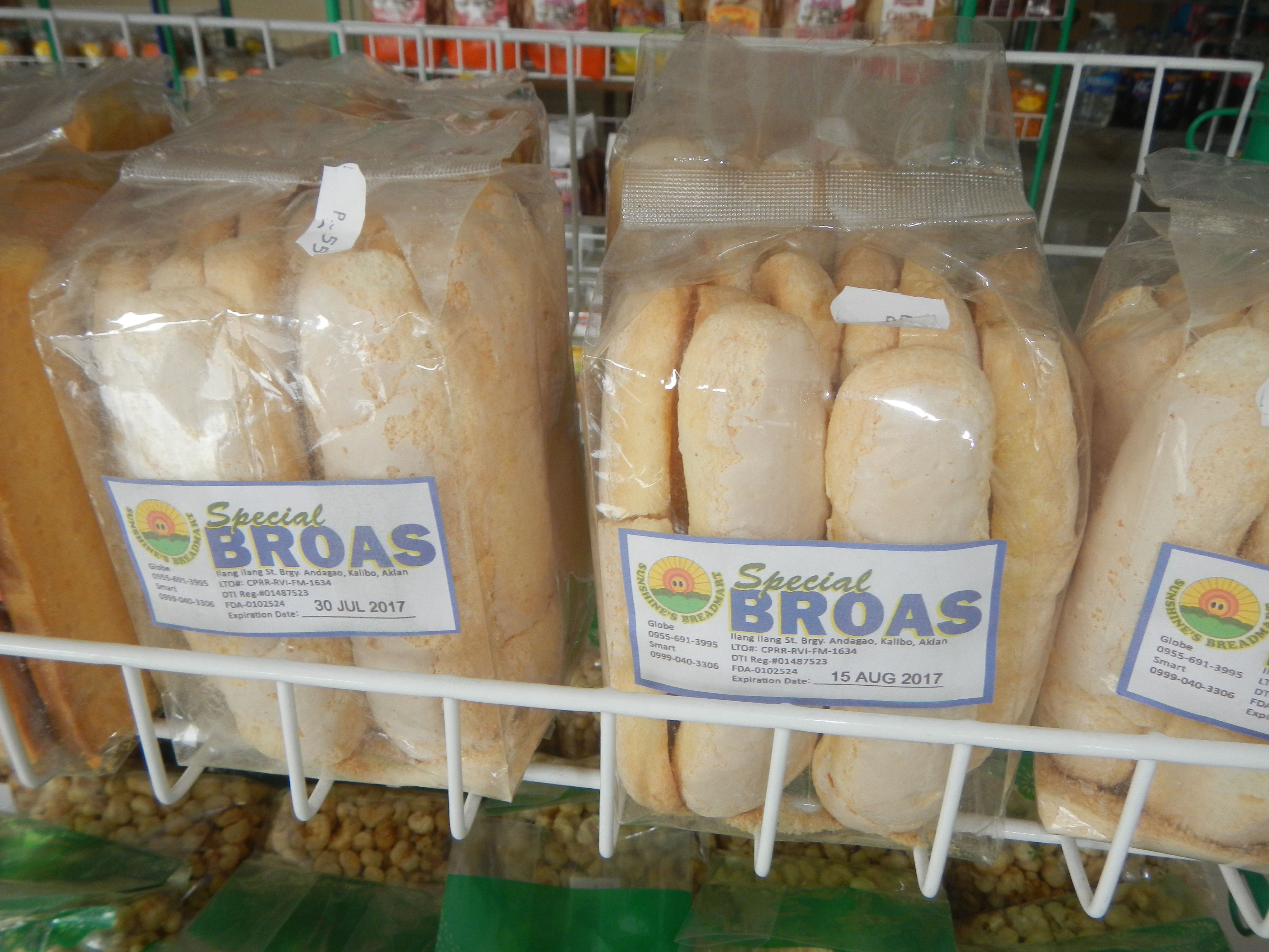 Cuisine foods delicacies of the Philippines; Pitsi-pitsî Pancit Malabaon Kenny Rogers Roasters Fried chicken in the Philippine Pastillas Biskotso Broas taken at Pagala, Baliuag, Bulacan 14°58'11"N 120°53'41"E (Note: Judge Florentino Floro, the owner, to repeat, Donor Florentino Floro of all these photos hereby donate gratuitously, freely and unconditionally all these photos to and for Wikimedia Commons, exclusively, for public use of the public domain, and again without any condition whatsoever).